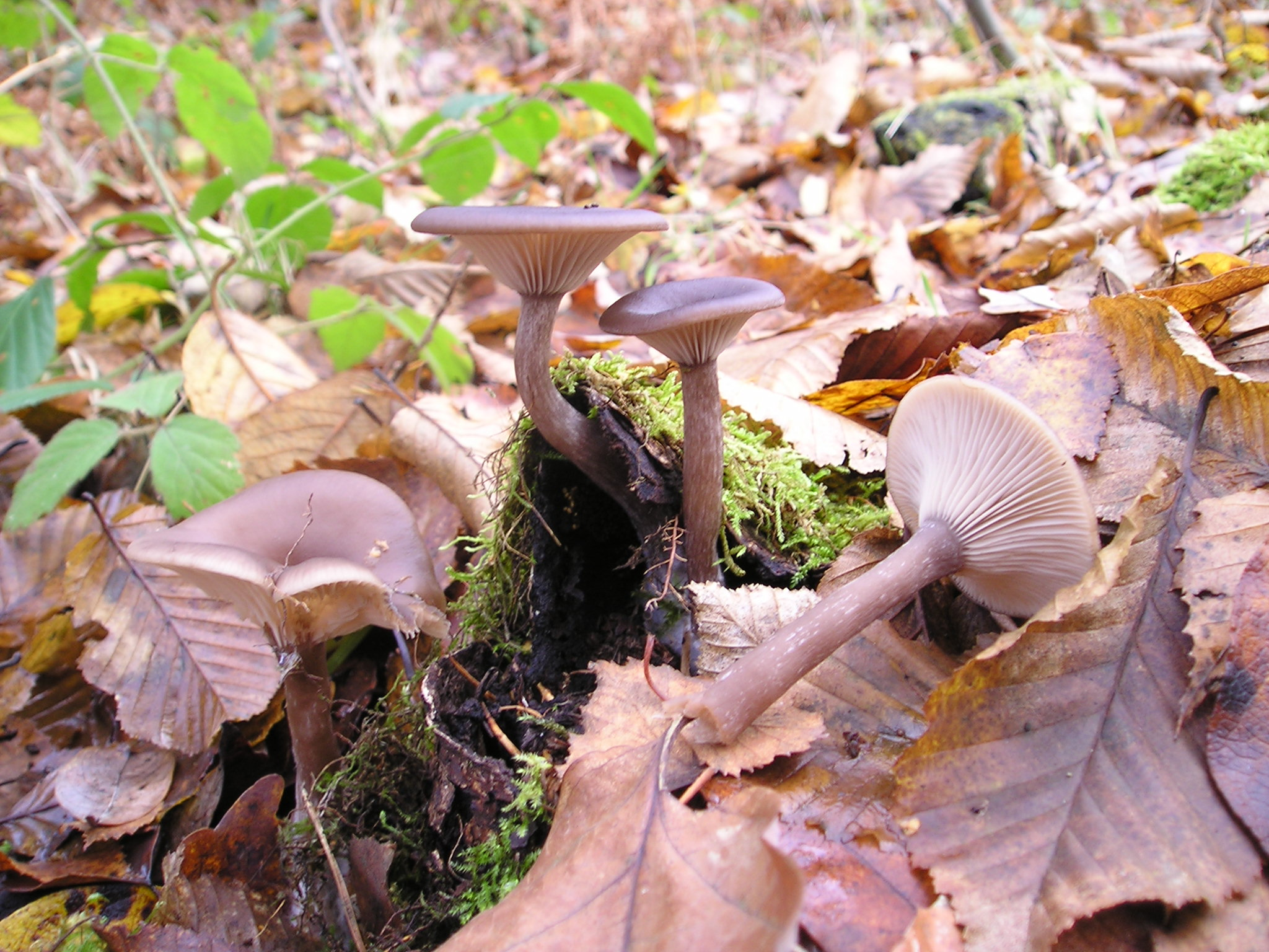 Pseudoclitocybe cyathiformis in a French wood.